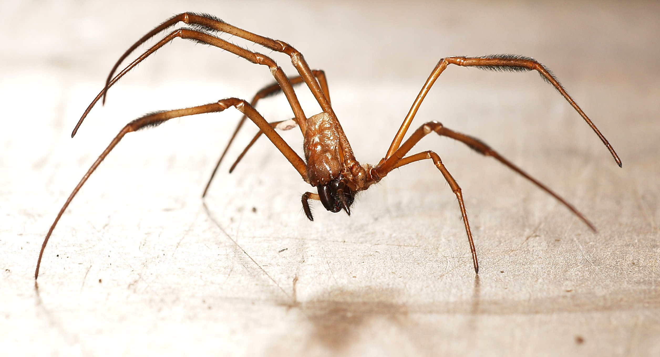 exuvia of female Nephila pilipes from Cologne Zoo, Germany.